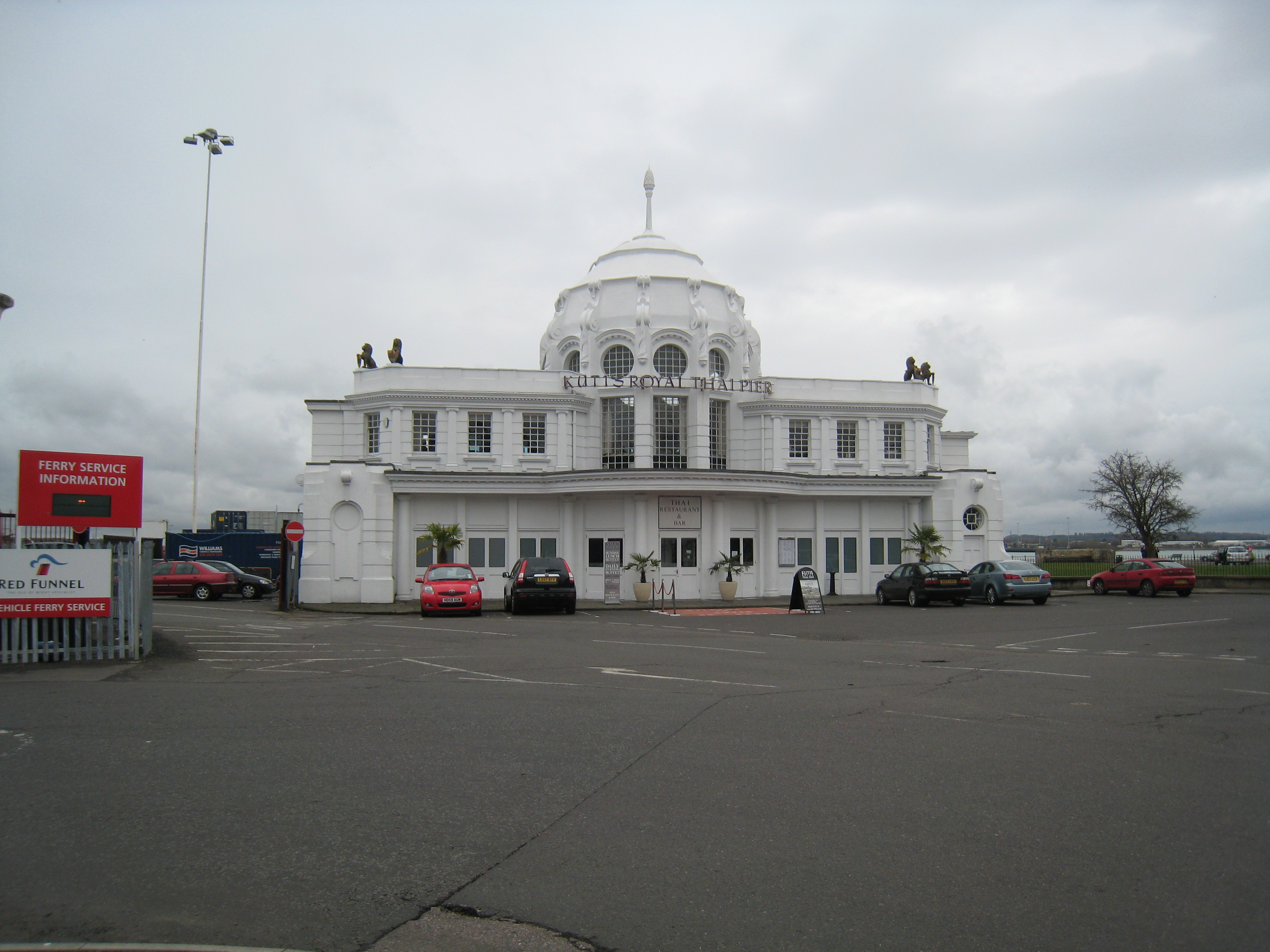 The entrance building (Grade II listed) to the Royal Pier, Southampton. The pier itself is now derelict, having been destroyed by fire, while the entrance building is a restaurant